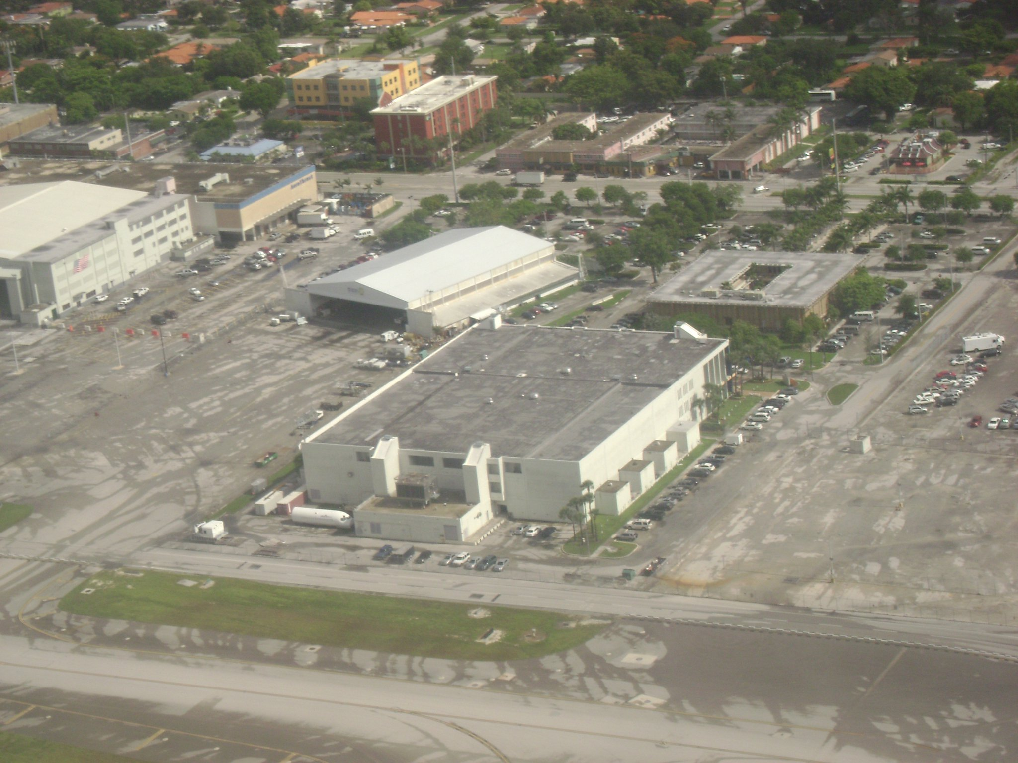 Pan Am International Flight Academy, Miami - as seen from KMIA